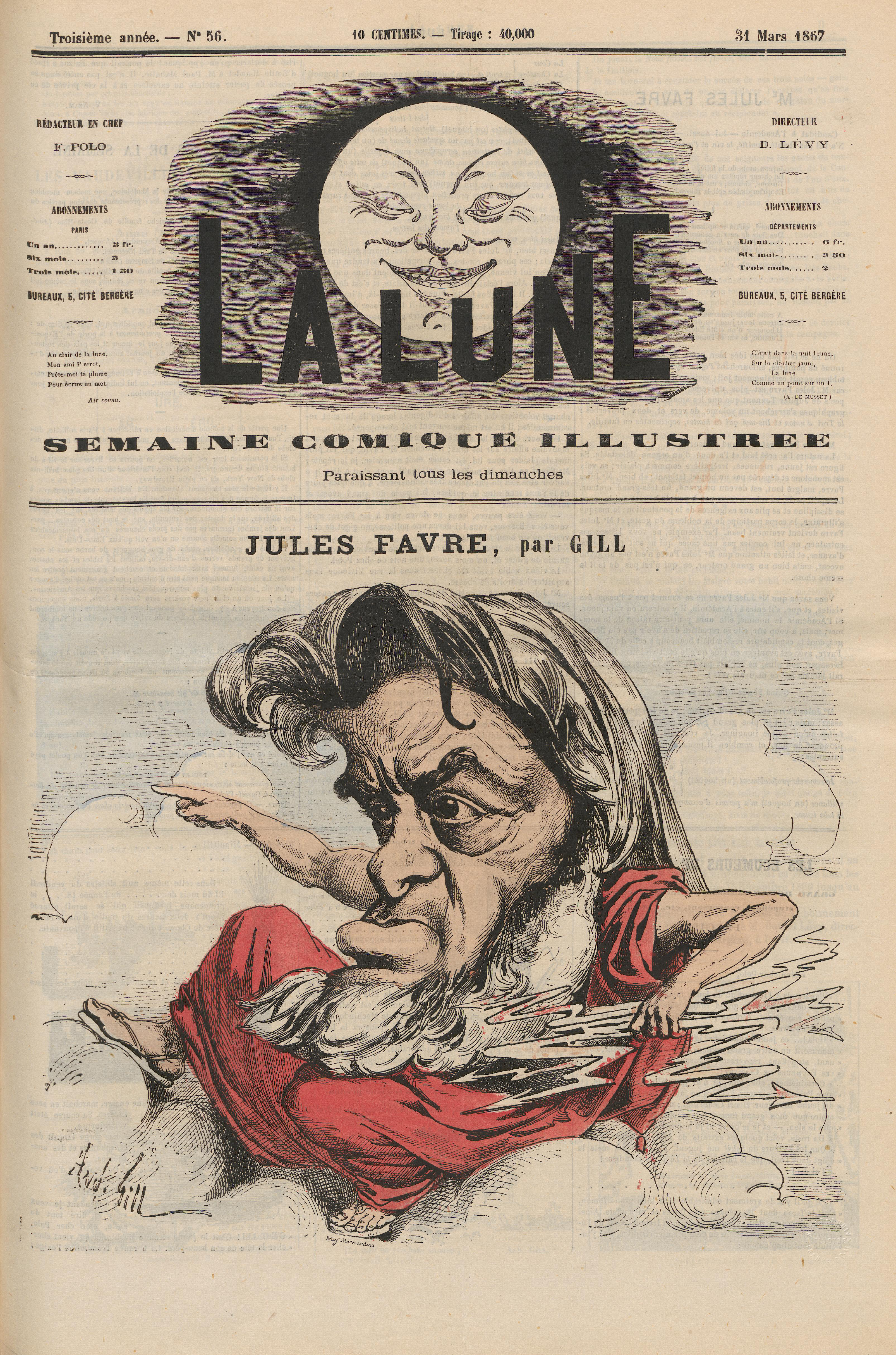 Caricature of Jules Favre Cover of La Lune 31 March 1867 Hand-colored Engraving 12"w x 18"h